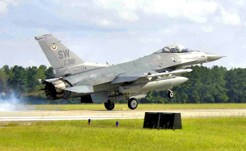 USAF F-16C block 50 #91-0381 from the 55th FS makes a soft landing on the flightline in December of 2006. This flight was the last regularly scheduled flight for the fiscal year of 2006. The 20th FW flew 14,182 sorties and a total of 21,052 hours in FY 06. [USAF photo by A1C. William Coleman]